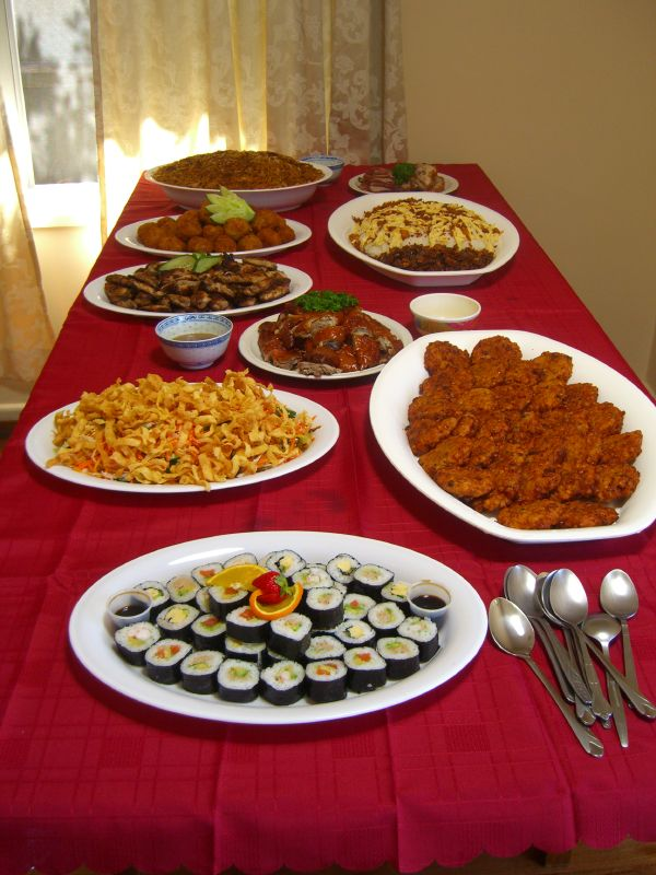 A delicious-looking meal